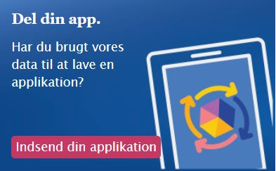 Screenshot from EUODP